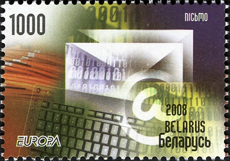 Stamp of Belarus